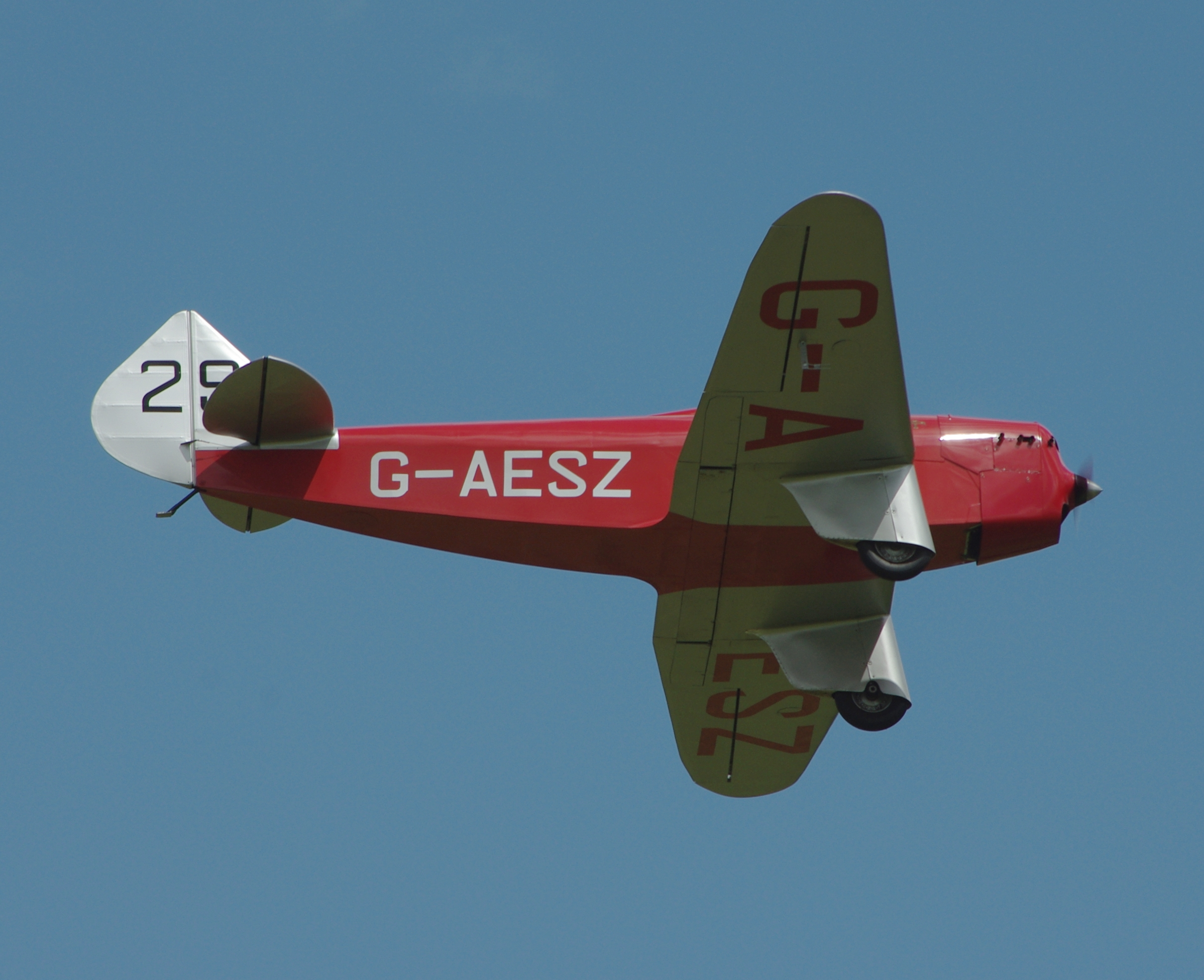 The first Chilton D.W.1 flying at the Shuttleworth Summer show 2009